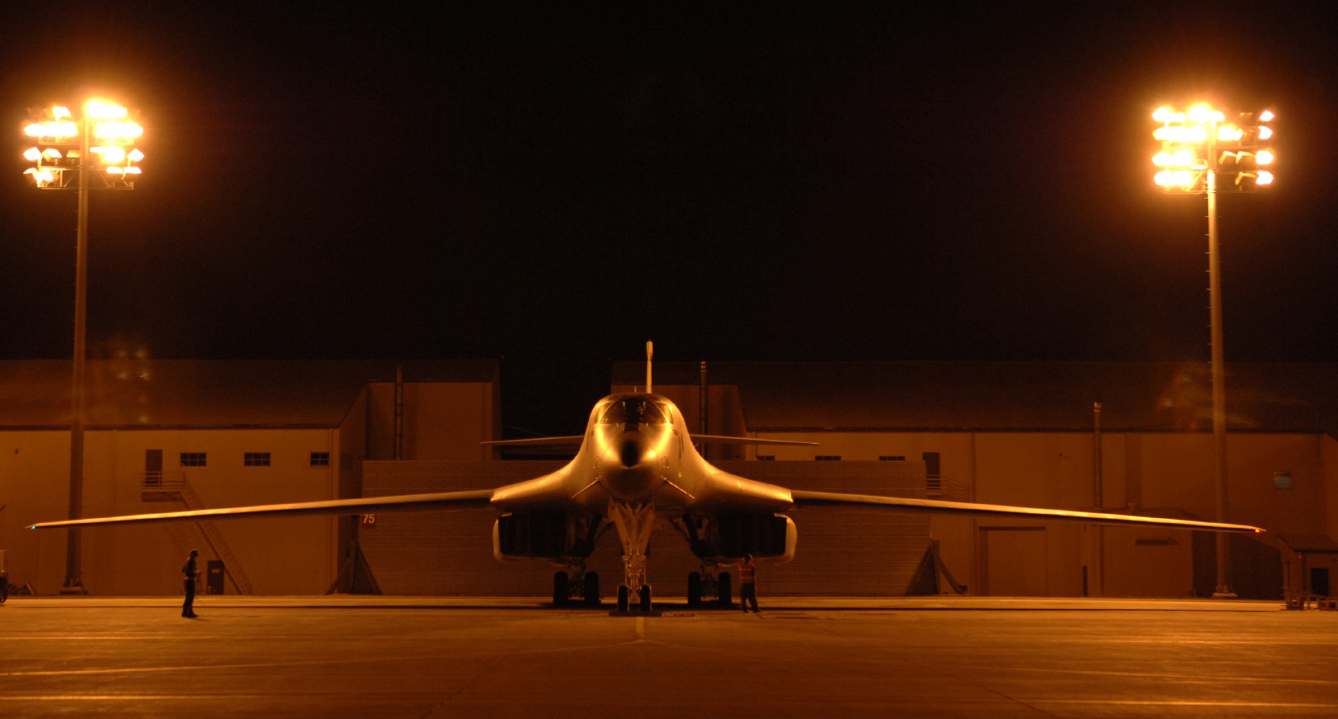 AWAITING TAKEOFF A 28th Bomb Wing B-1B Lancer sits on the ramp in the early morning at Ellsworth Air Force Base, S.D., Aug. 30, waiting to taxi. The aircraft was taking off to conduct the first test launch of a joint air-to-surface standoff missile. (/)